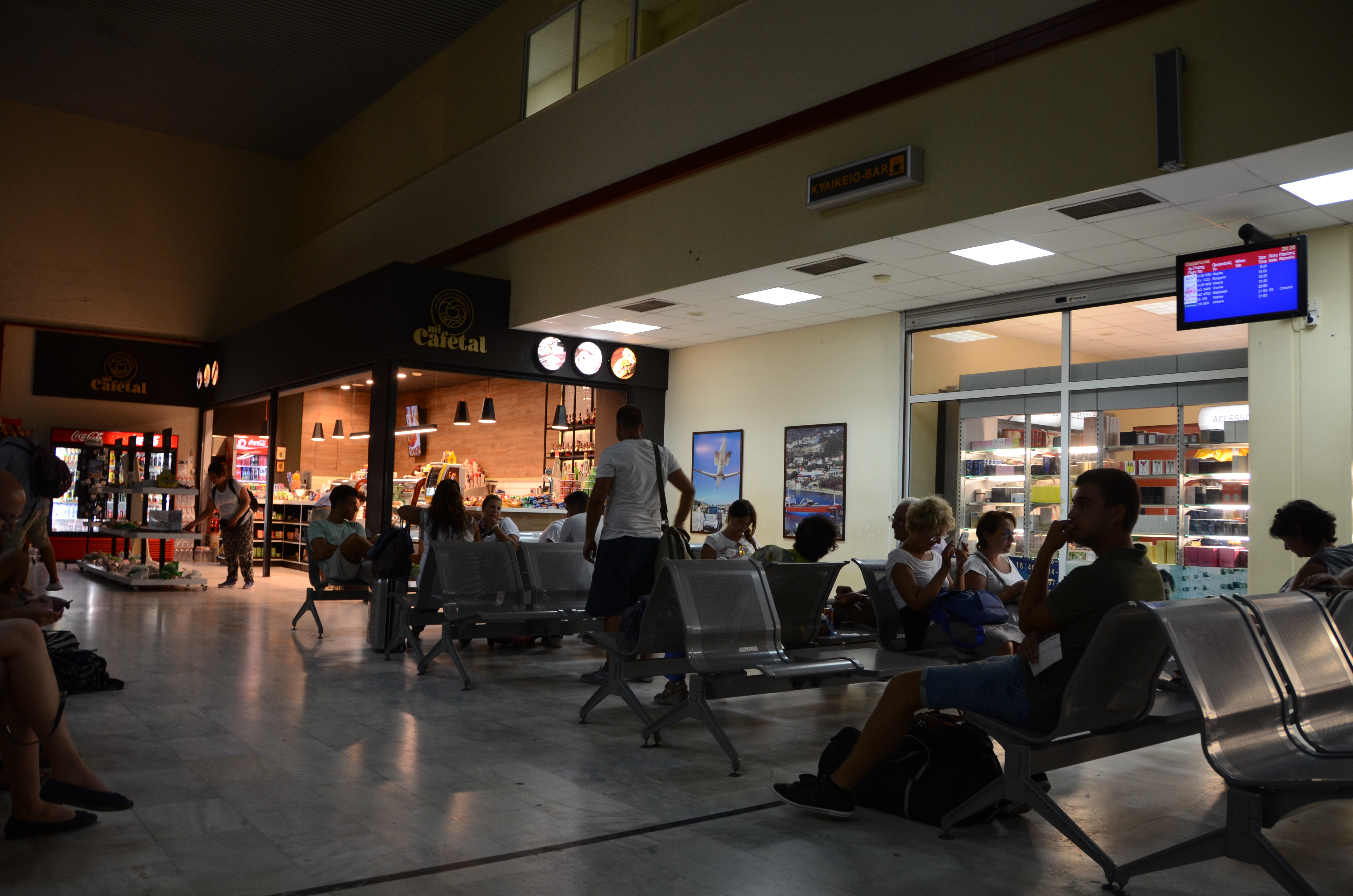 Airport of Skiathos, lights and shadows.